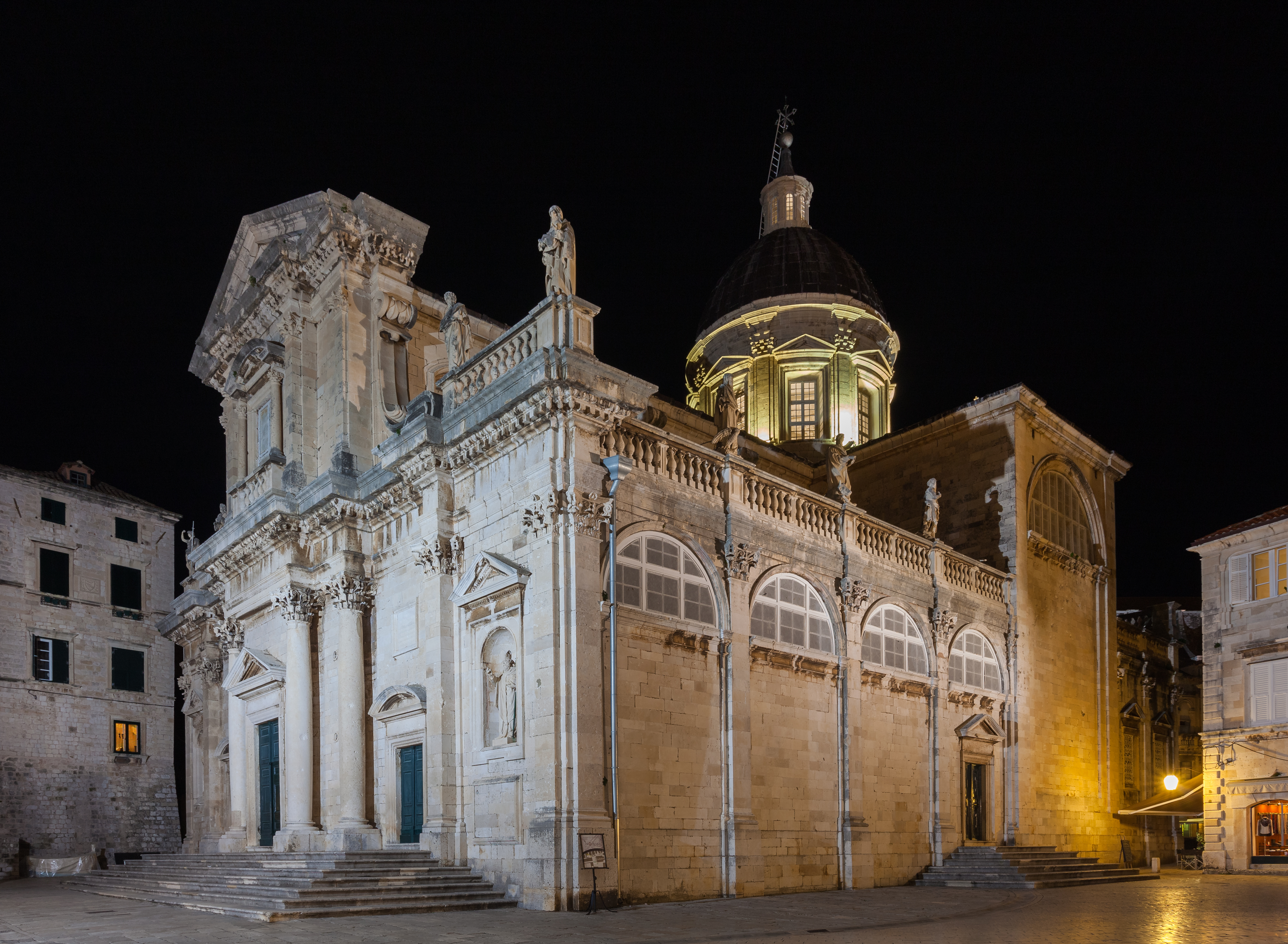 Cathedral of Dubrovnik, Old city of Dubrovnik, Croatia